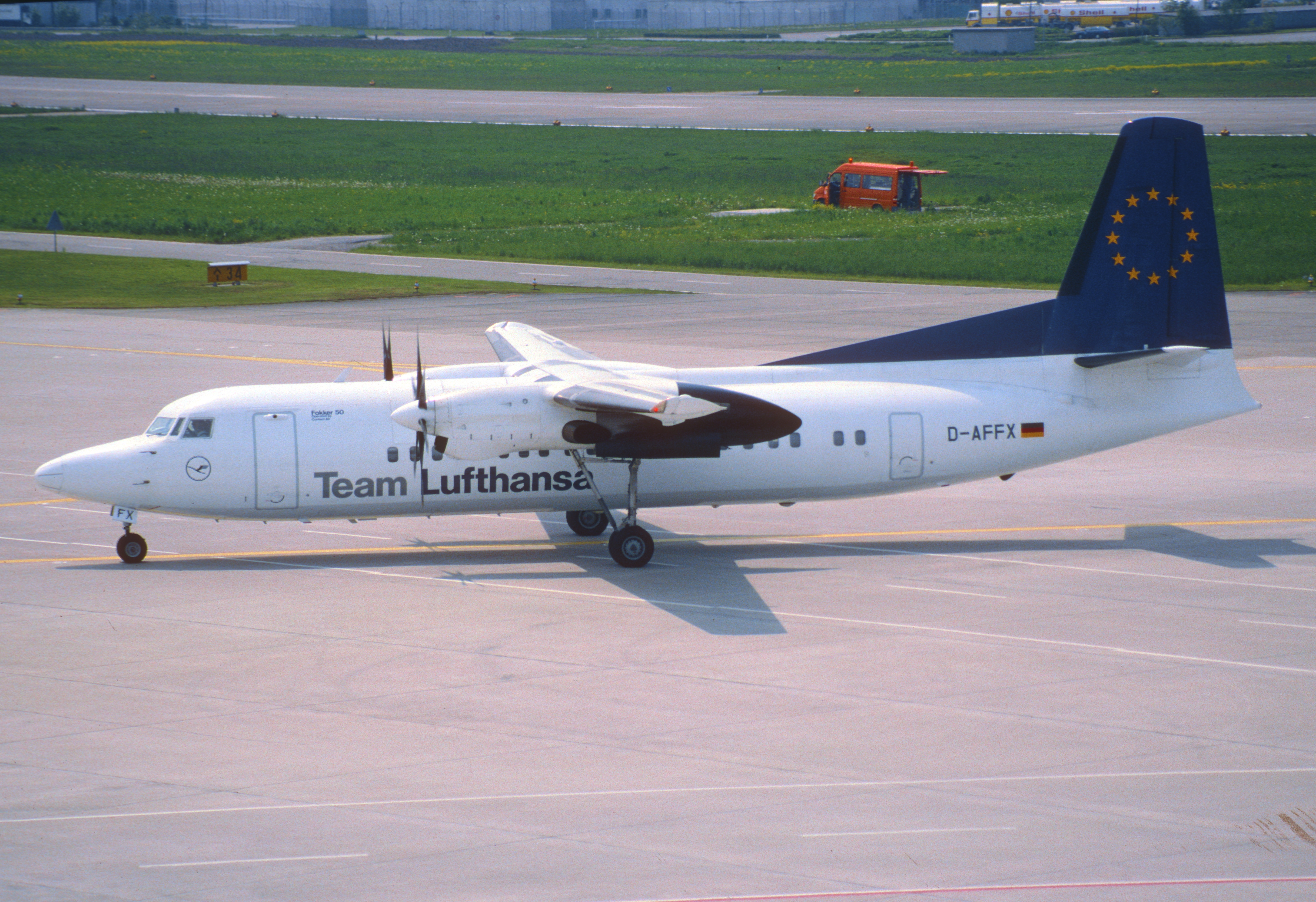 23ca - Contact Air (Team Lufthansa) Fokker 50; D-AFFX@ZRH;09.05.1998